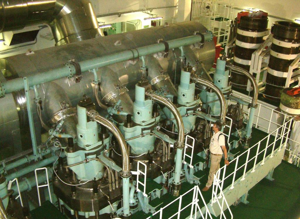 Container vessel Monte class, main engine